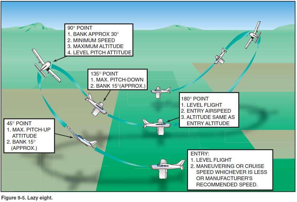 This is the work of a Government Agency. Although the FAA sells this book for about $17USD it is available, free of charge, at the URL above. The Federal Aviation Administration holds no copyright on this publication.